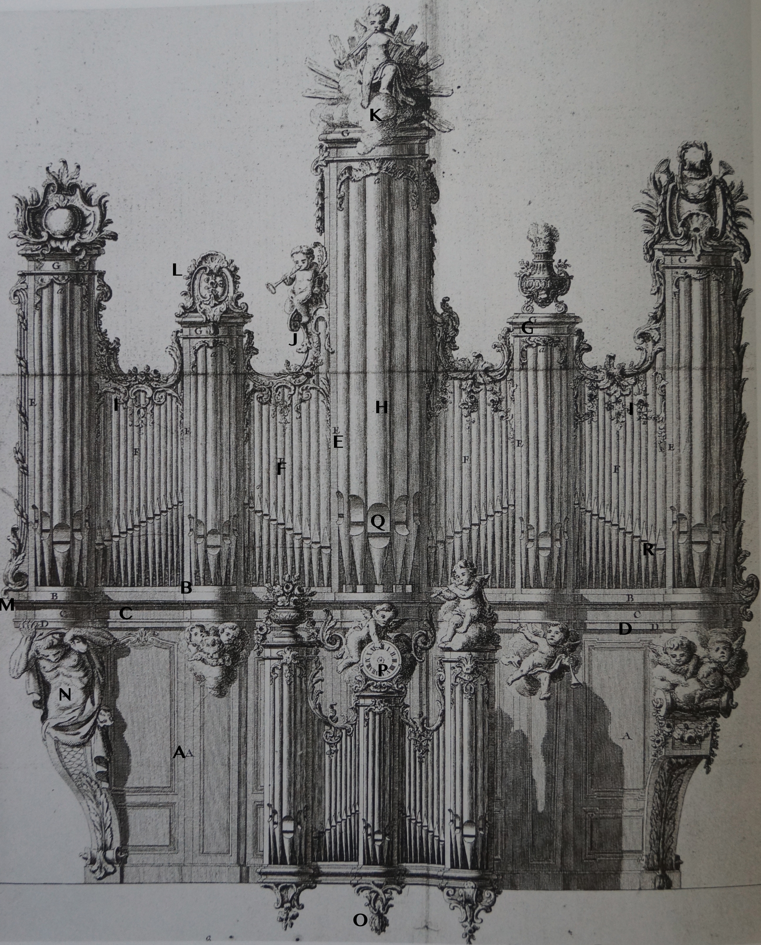 Pipe organ chest